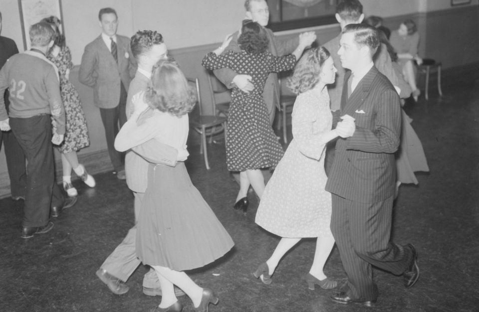 We see couples dancing folk dances to the branch of the Young Men's Christian Association (YMCA) located at 5500 Park Avenue in Montreal.